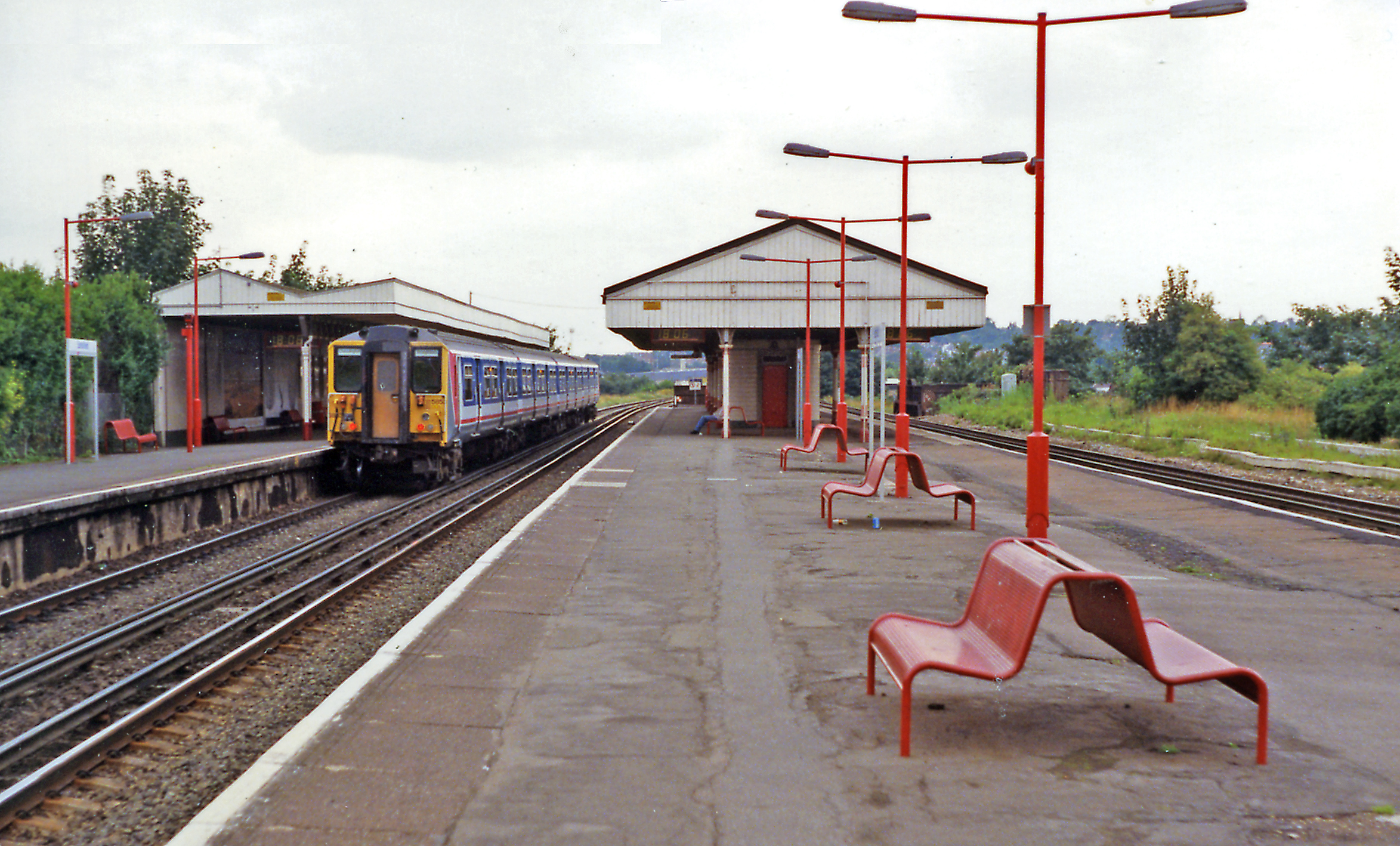 Earlsfield station, 1991. View SW, towards Wimbledon, Surbiton, Woking and the SW: ex-LSWR main line from Waterloo. The Class 455/8 EMU at the Down Slow platform is bound for Chessington South. Note that there is no platform serving the Up Fast line.